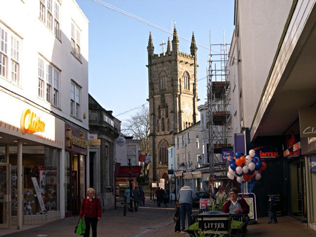 View east along Fore Street, St Austell, Cornwall, to the tower of Holy Trinity parish church